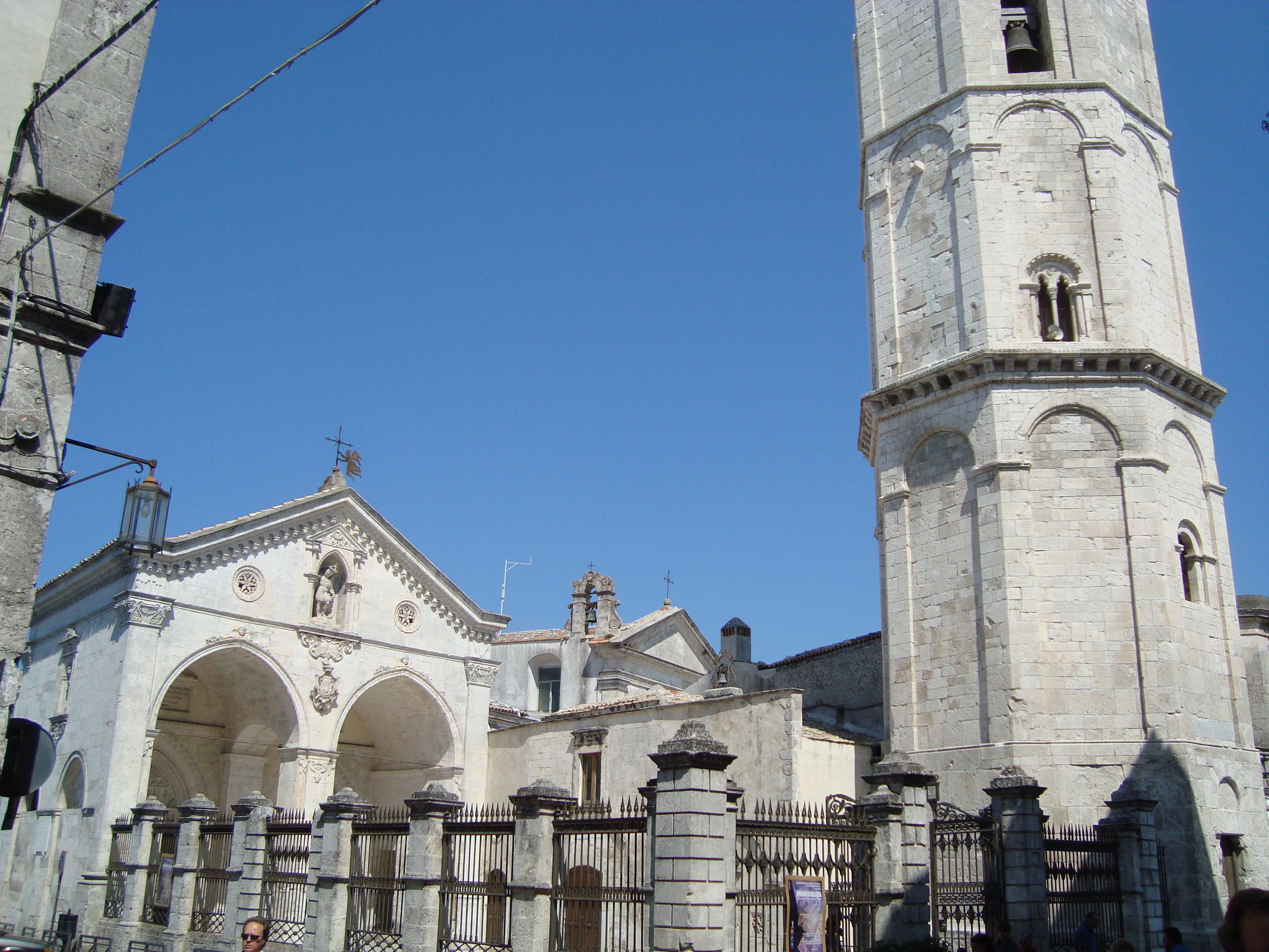 Sanctuaire de l'archange Saint Michel à Monte Sant'Angelo